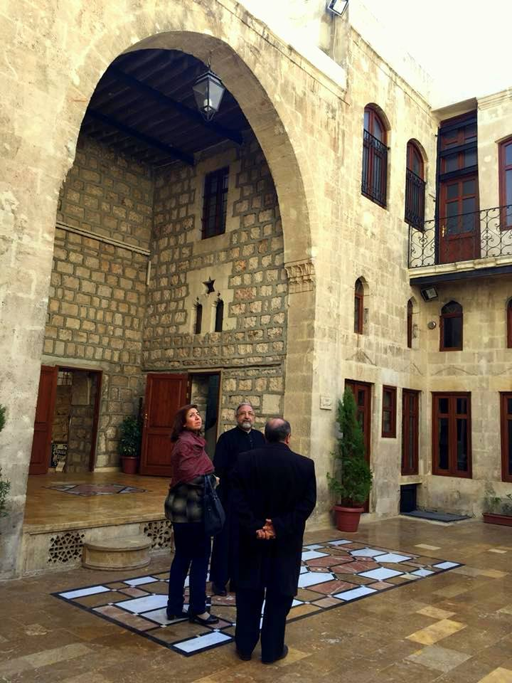 Cathedral of Our Mother of Reliefs, Aleppo, 30 November 2017. Primate Petros Miriatyan visits the church and the nearby school.